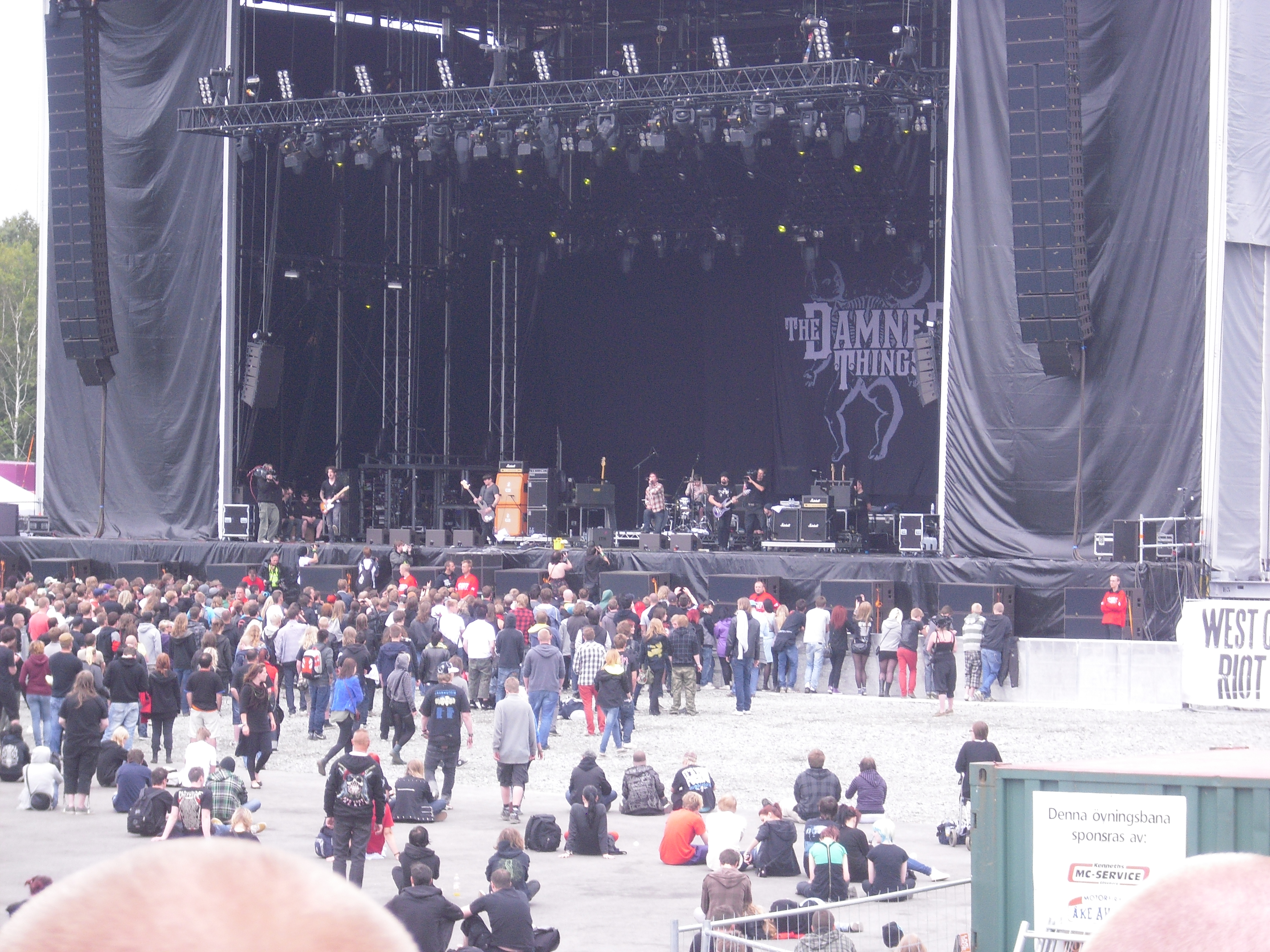 The Damned Things performing live at Metaltown Festival in June 2011